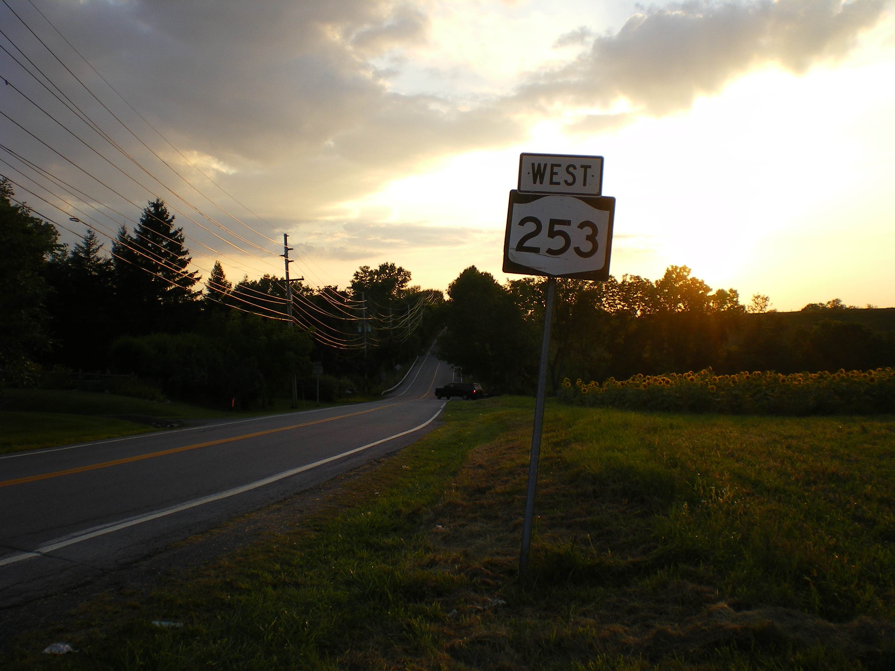 First reassurance shield on New York State Route 253 westbound.